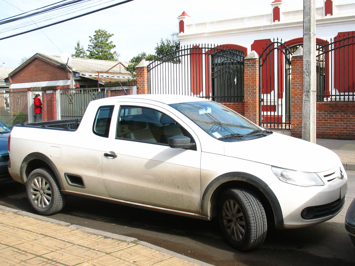 Volkswagen Saveiro Mk5 2010.